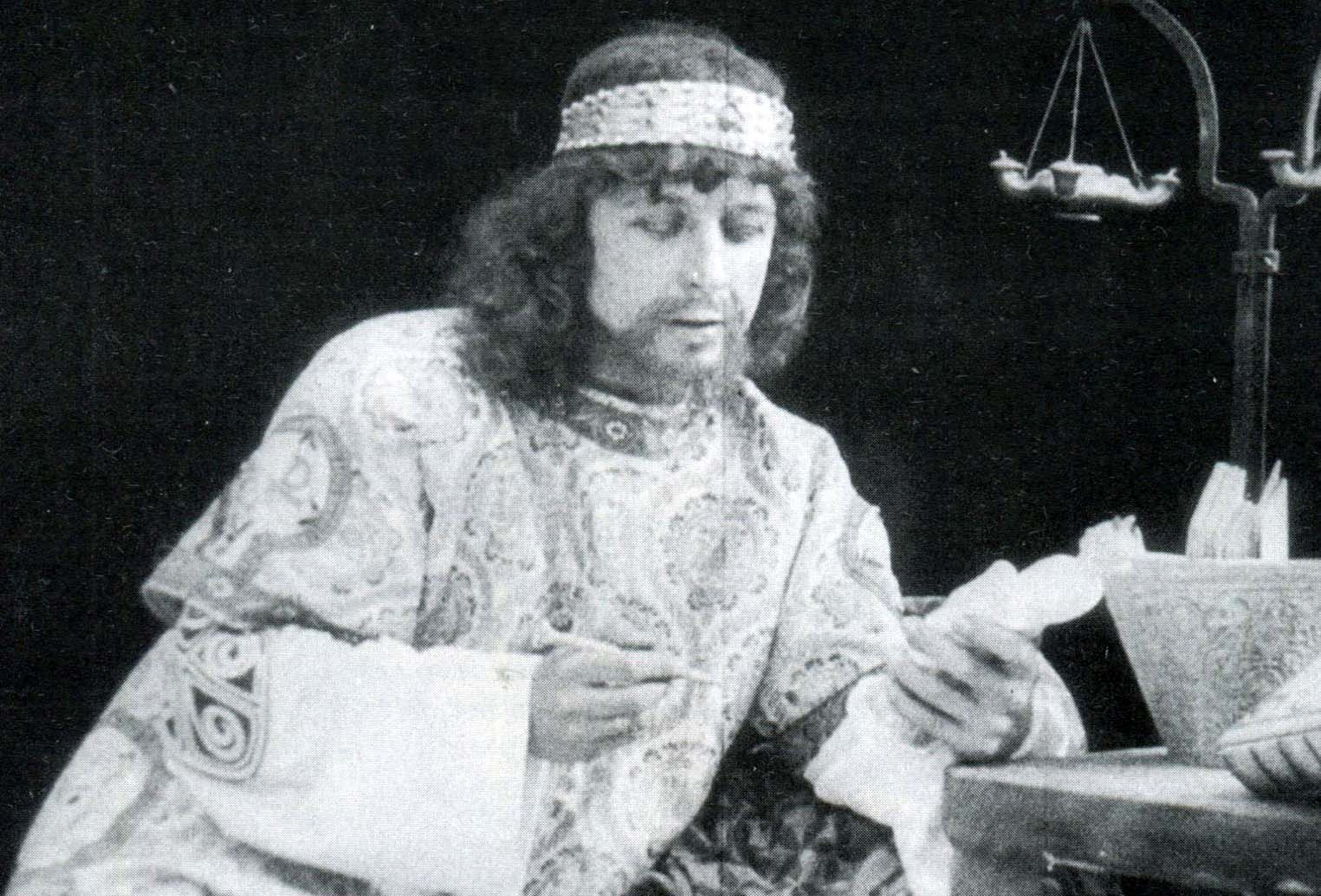 Giuliano l'apostata (Falena 1920) l'attore protagonista Guido Graziosi